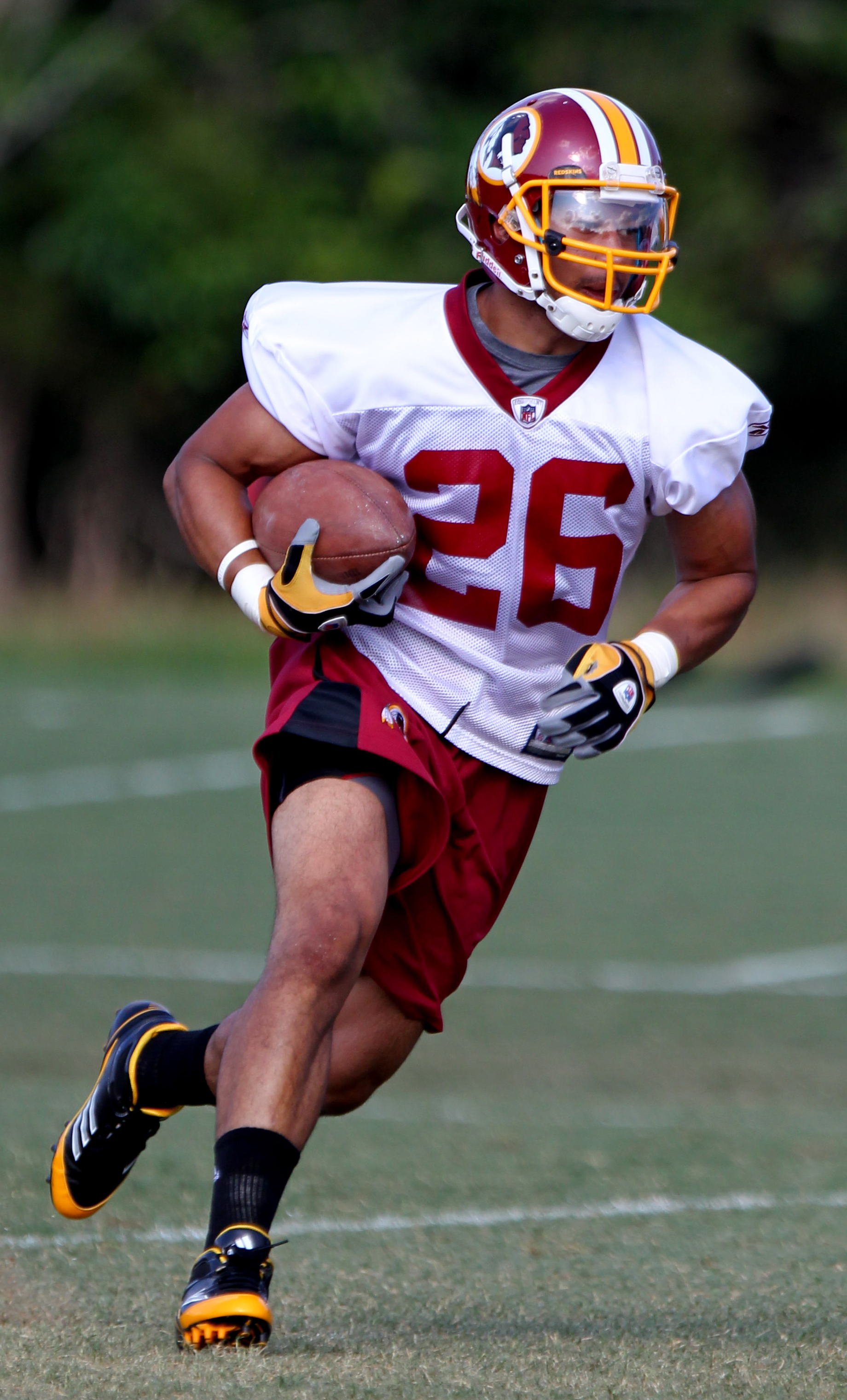 Washington Redskins Training Camp August 4, 2011